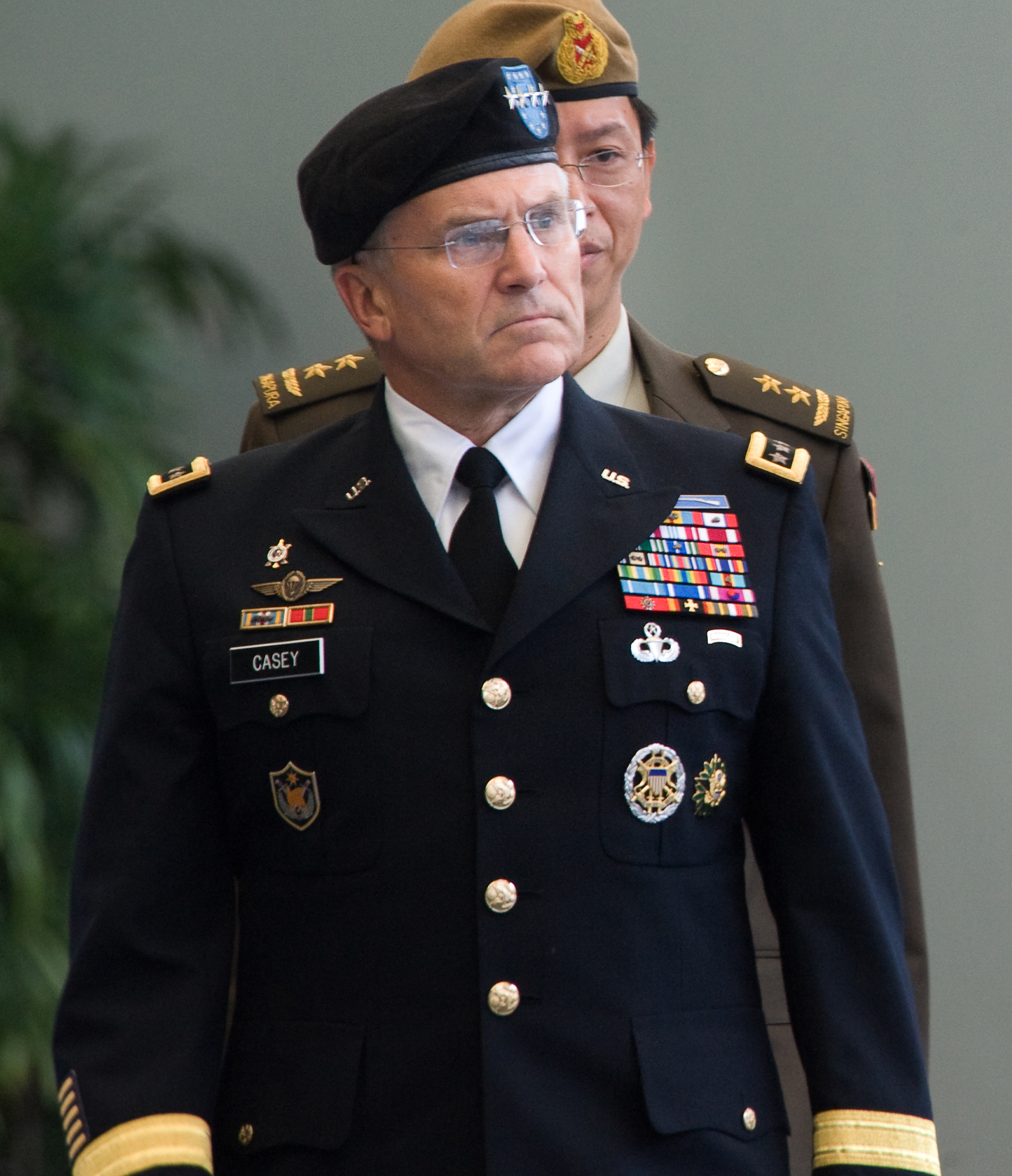 Casey showing his awards in Singapore, 2009